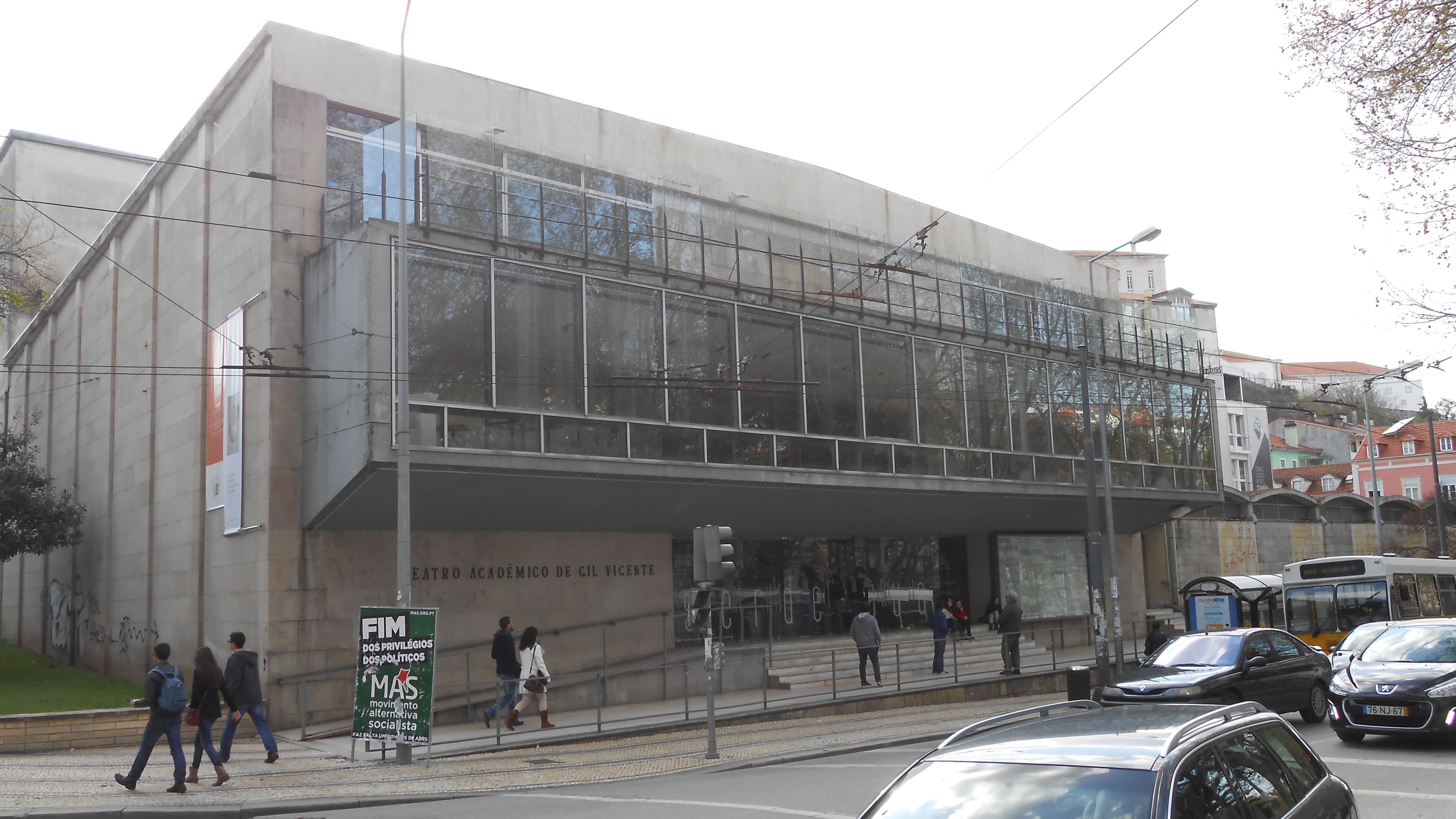 The Teatro Académico Gil Vicente in Coimbra